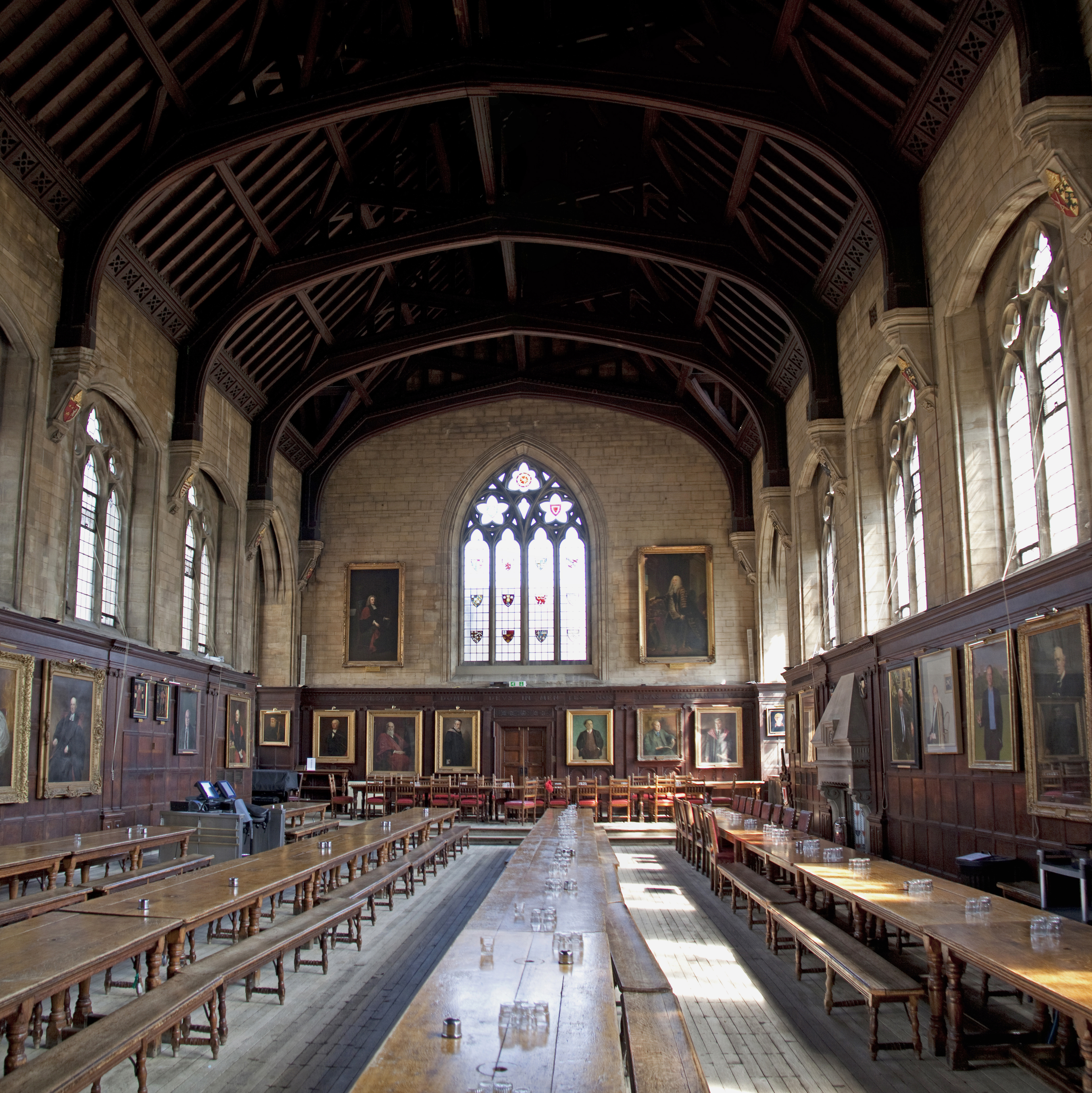 Balliol College, Oxford: hall interior